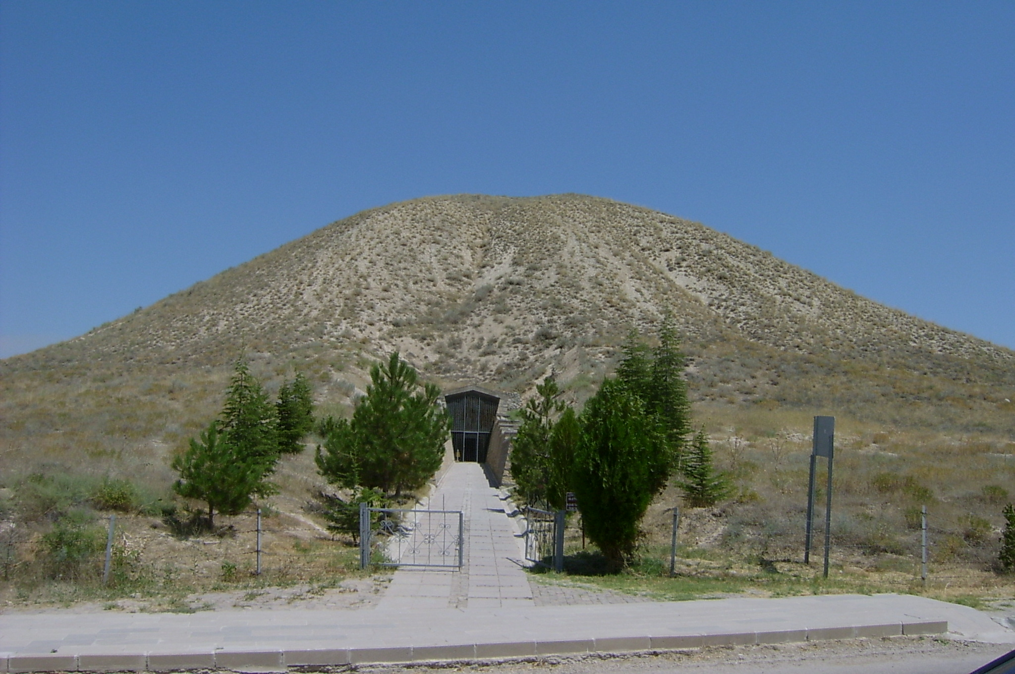 Tumulus of King Midas of Phrygia in Gordion, Turkey.